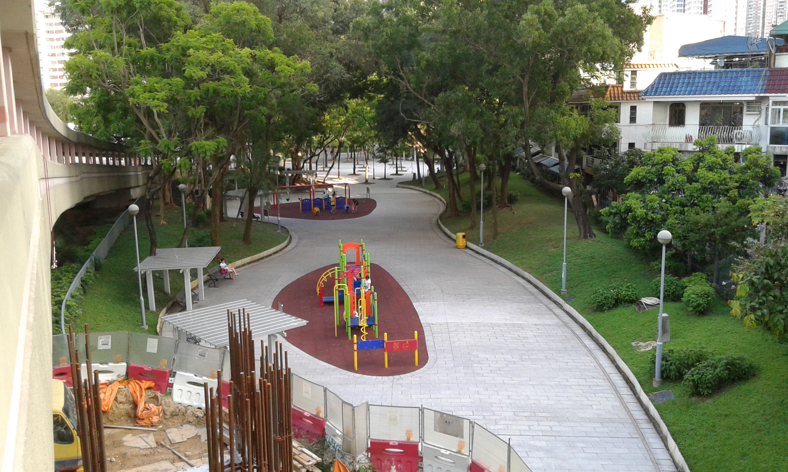 Hung Mui Kuk Road Playground viewed from the Footbridge across Che Kung Miu Road. A portion of Tin Sam Village is visible on the right